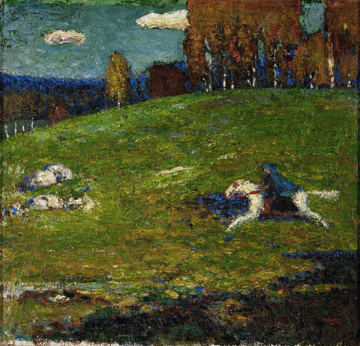 Wassily Kandinsky, 1903, The Blue Rider (Der Blaue Reiter), oil on canvas, 52.1 x 54.6 cm, Stiftung Sammlung E.G. Bührle, Zurich